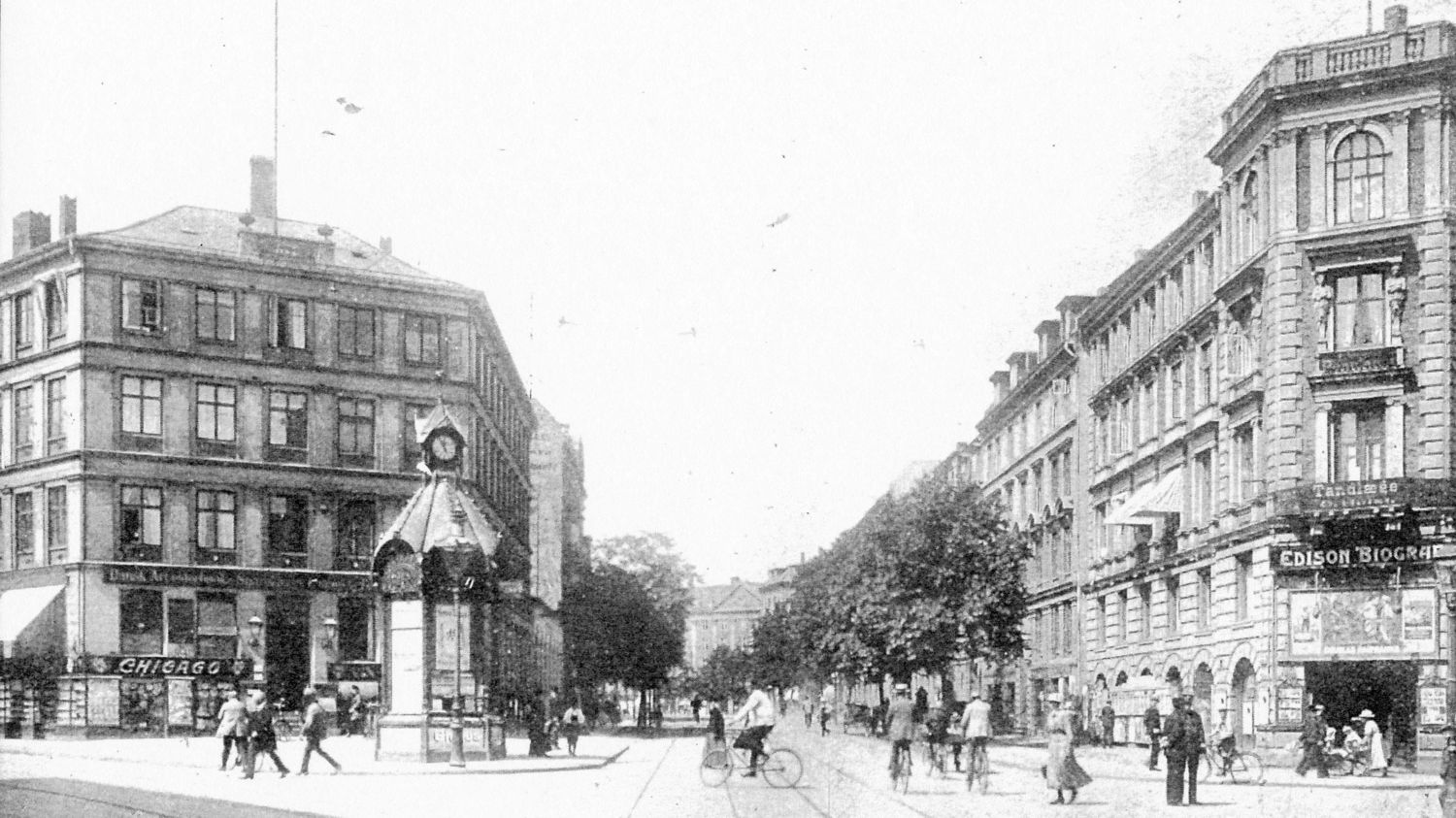 The beginning of Frederiksberg Allé seen from Vesterbrogade in Copenhagen, Denmark